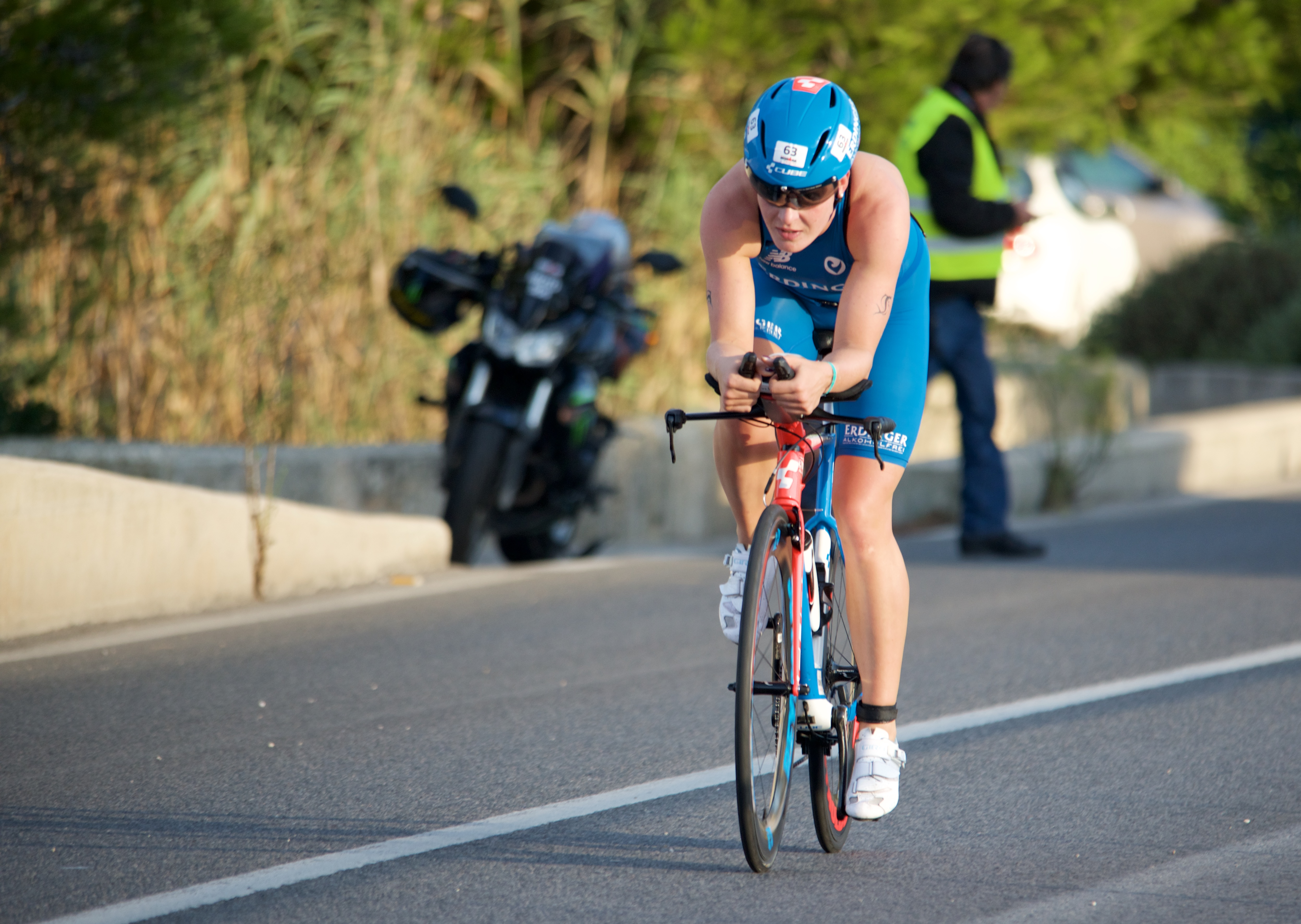 Daniela Sämmler, Ironman Mallorca 2015